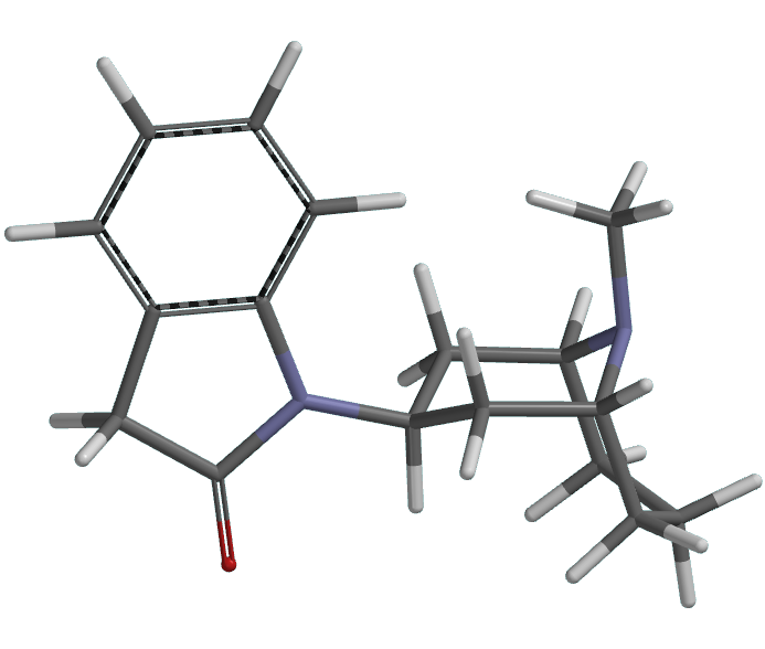 The compound is a ligand selective to the α3β4 nicotinic acetylcholine receptor and was synthesized by Nurulain Zaveri et al. in 2010. In the article, the compound is compound 5. The file was made with Spartan '08, and the equilibrium geometry was calculated with the semi-empirical model with PM3 as the method. As a reference, the digital object identifier is